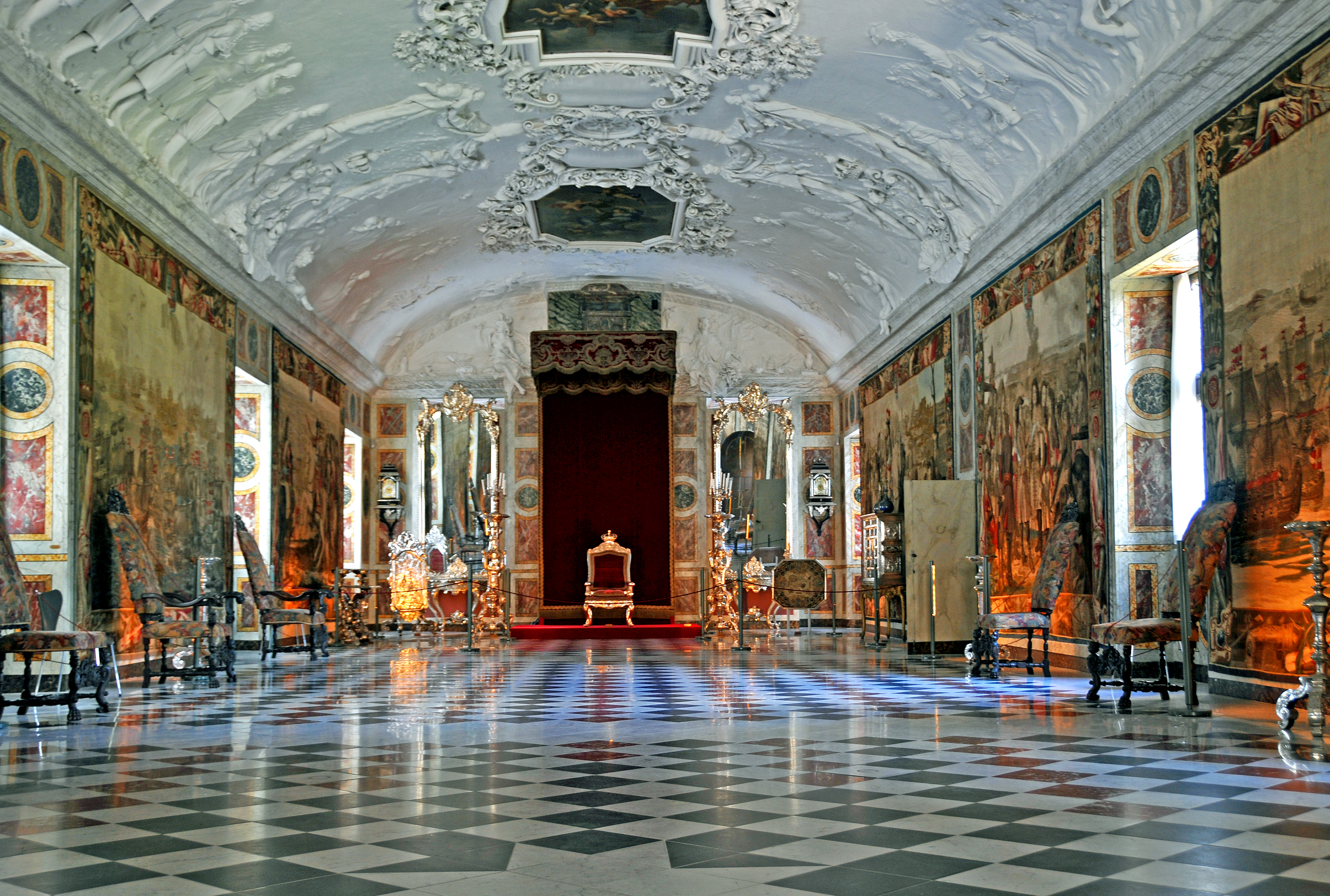 PLEASE, no multi invitations in your comments. Thanks. I AM POSTING MANY DO NOT FEEL YOU HAVE TO COMMENT ON ALL - JUST ENJOY. The Knight's Hall, which was the last room to be furnished in the palace, was completed in 1624. It was originally intended as a ballroom. Around 1700 it was used for audiences and for banquets. The name, "The Knights' Hall" was only given during Romanticism. The present stucco ceiling is from the beginning of the 18th century. It shows the Danish coat-of-arms surrounded by the Orders of the Elephant and of the Dannebrog.